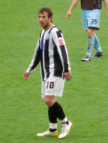 Bury FC midfielder Steve Haslam, Lee Bullock and Paul Scott at Spotland football ground, home of Rochdale AFC. Saturday 6th October 2007